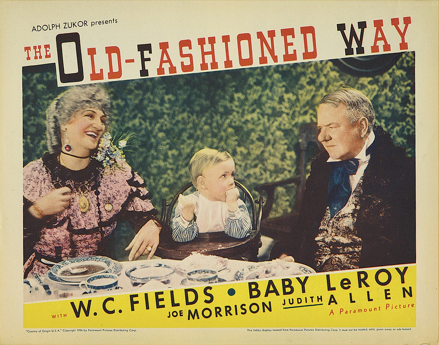 Lobby card for the American comedy film The Old-Fashioned Way (1934) with Jan Duggan, Baby LeRoy, and W.C. Fields.